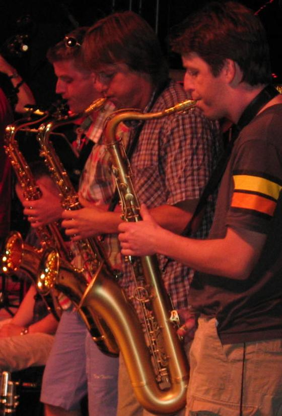 Saxophone players, from Big Band RTV Slovenia, R-L Tadej Tomšič, Miha Hawlina, Primož Flajšman